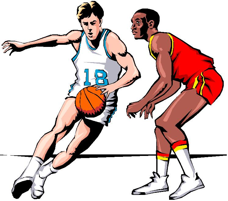 Basketball players clipart.